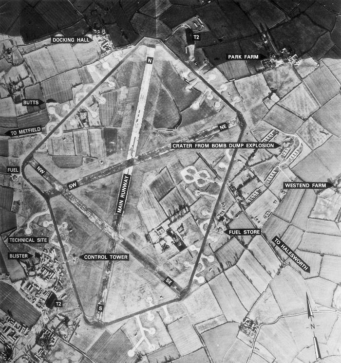 Aerial Photograph of RAF Metfield, England.